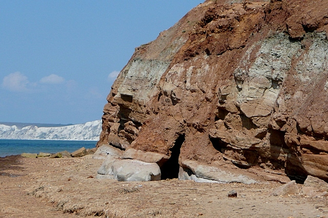 West of Chilton Chine The coastline west of the chine is accessible at lowish tides. The various rock strata in the Wealden Beds can be seen, with the chalk of Highdown Cliffs SZ3285 beyond.